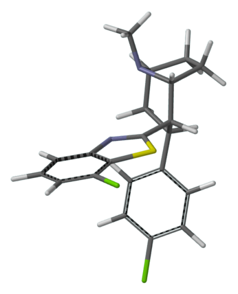 RTI-4229-470 in the tube model. The file was made with Spartan '08, and the equilibrium geometry was calculated with the semi-empirical model with PM3 as the method. As a reference, the digital object identifier is